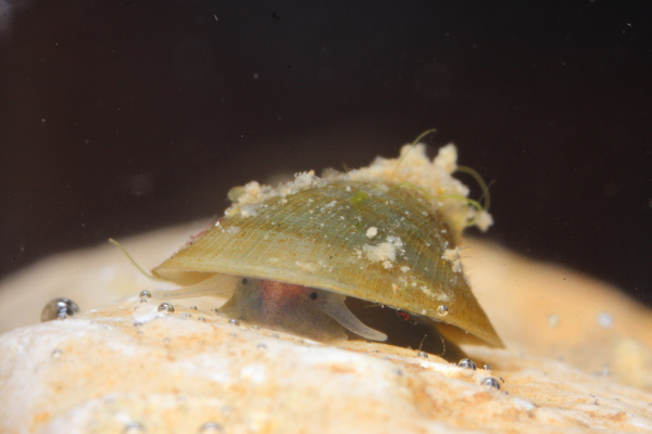 Ancylus sp., Torrent de la Vall D´ en Marc, Pollenca, Mallorca, Spain